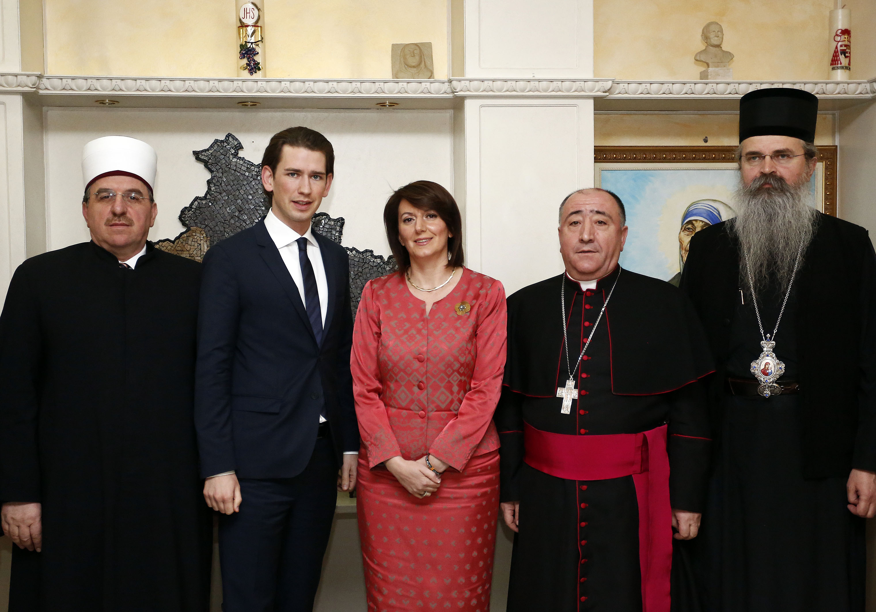 Kosovan President Atifete Jahjaga with Austrian foreign minister Sebastian Kurz, Catholic bishop Dodë Gjergji, Serbian Orthodox bishop Teodosije Šibalić and the Grand Mufti Naim Tërnava.